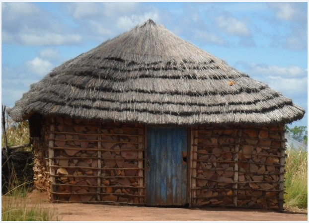 Traditional grass hut in Eswatini